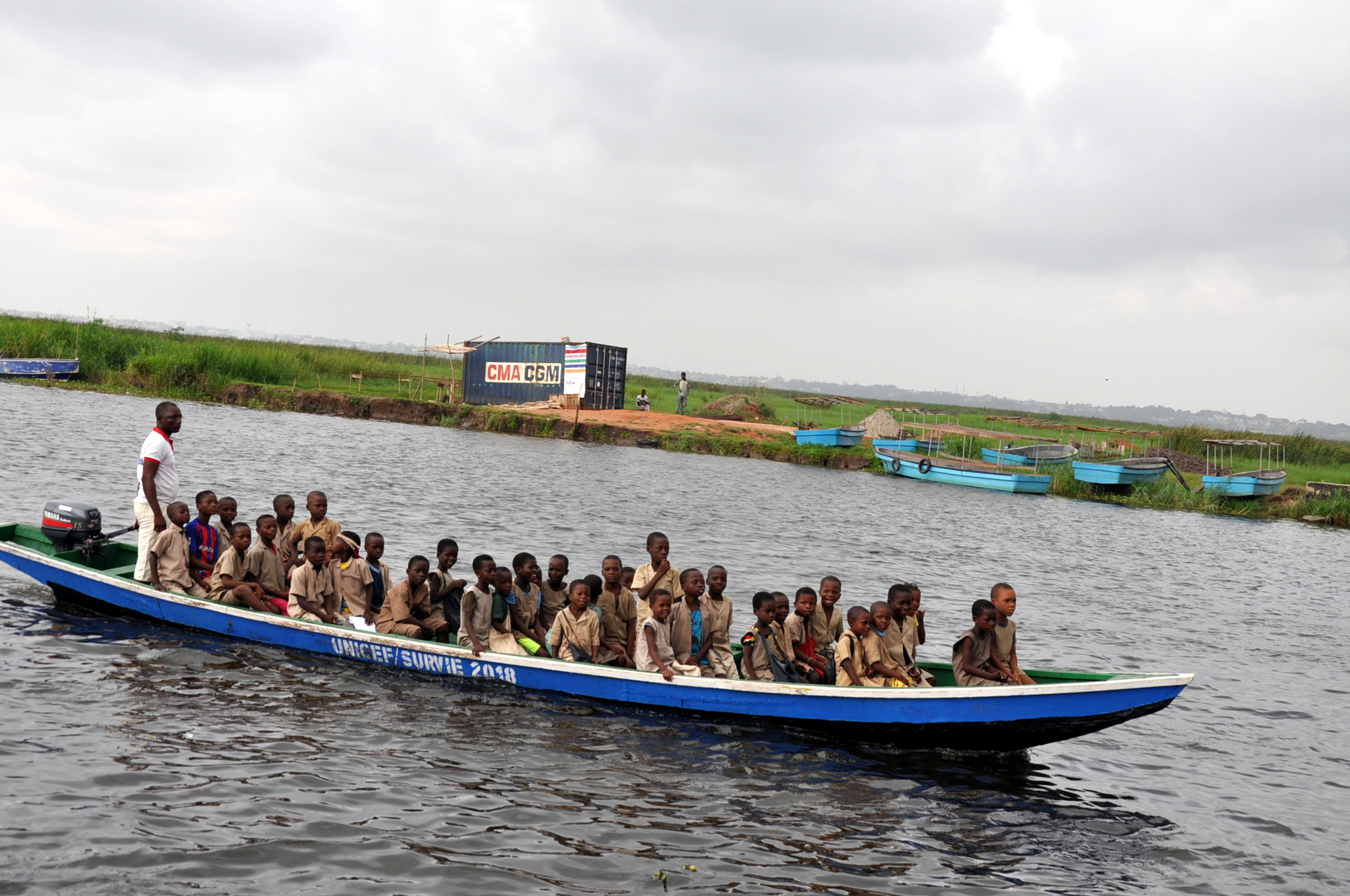 painful start of the 2019-2020 school year for Ganvier schoolchildren, lack of lack of transport canoe This is an image with the theme "Africa on the Move or Transport" from: Benin